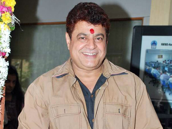 Gajendra Chauhan at the Dada Saheb Phalke Academy Awards, 2010